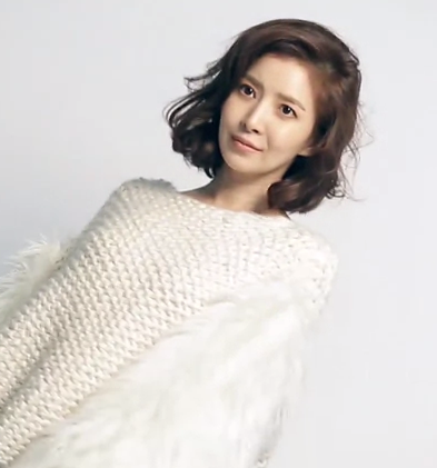 Yoon Se-ah, a South Korean actress